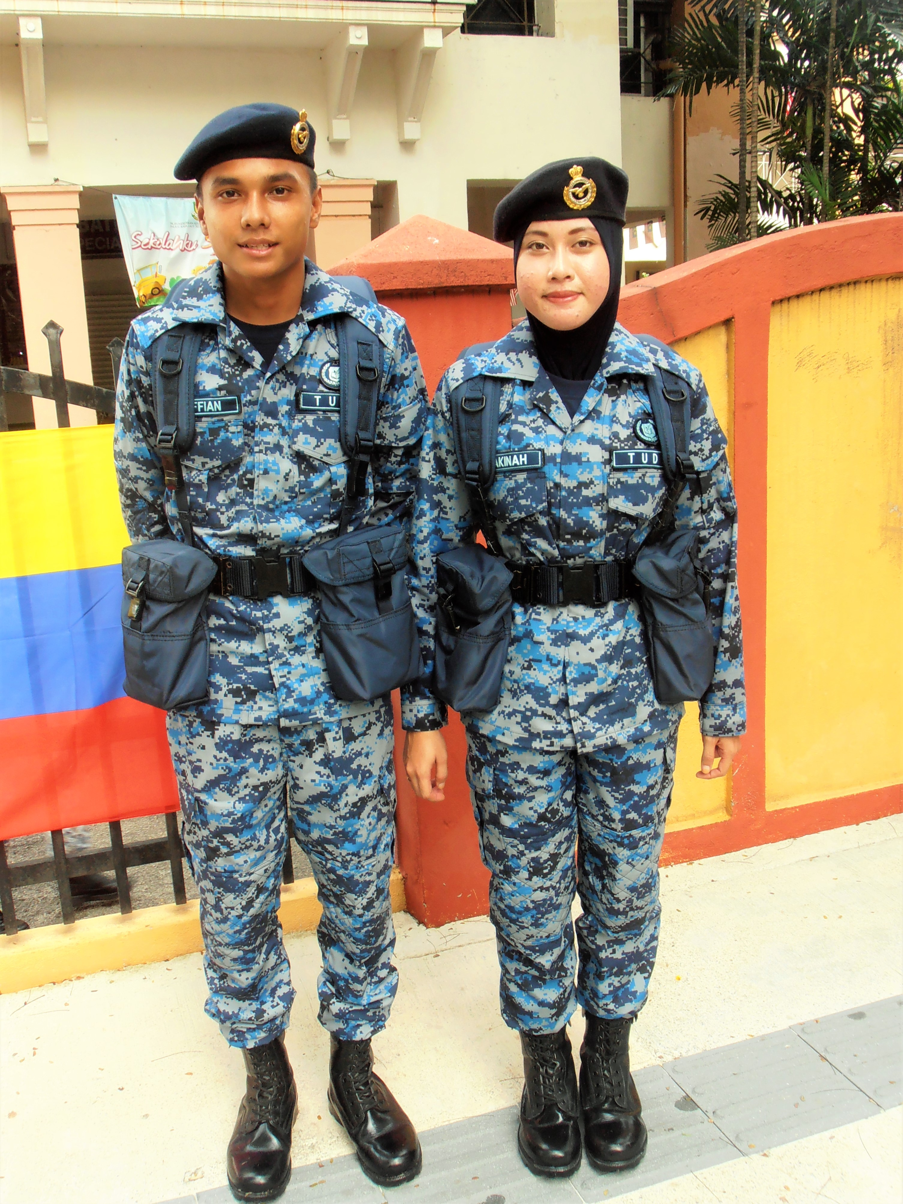 Two Malaysian aircrew operatives with an No.4 Digital Camouflage Pattern.